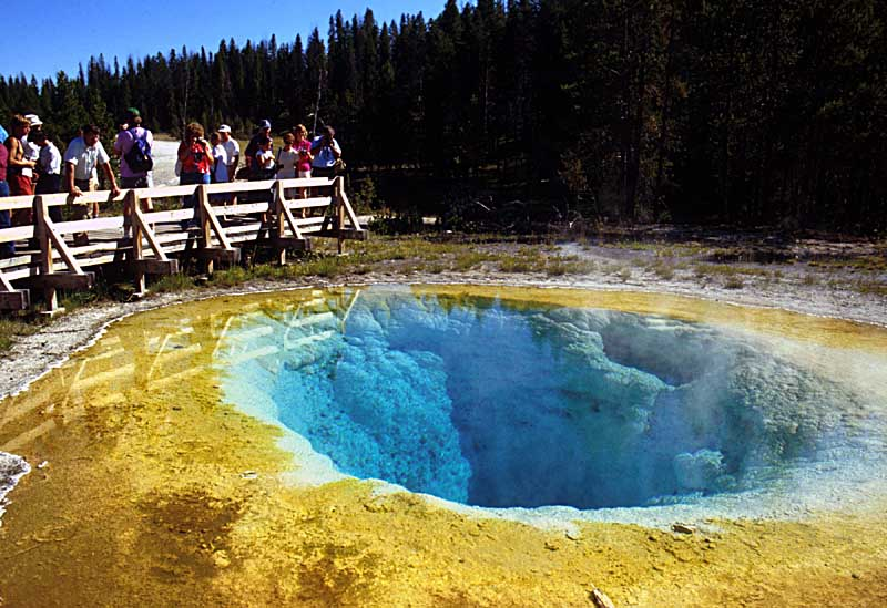 Morning Glory Pool, NPS Photo Archive